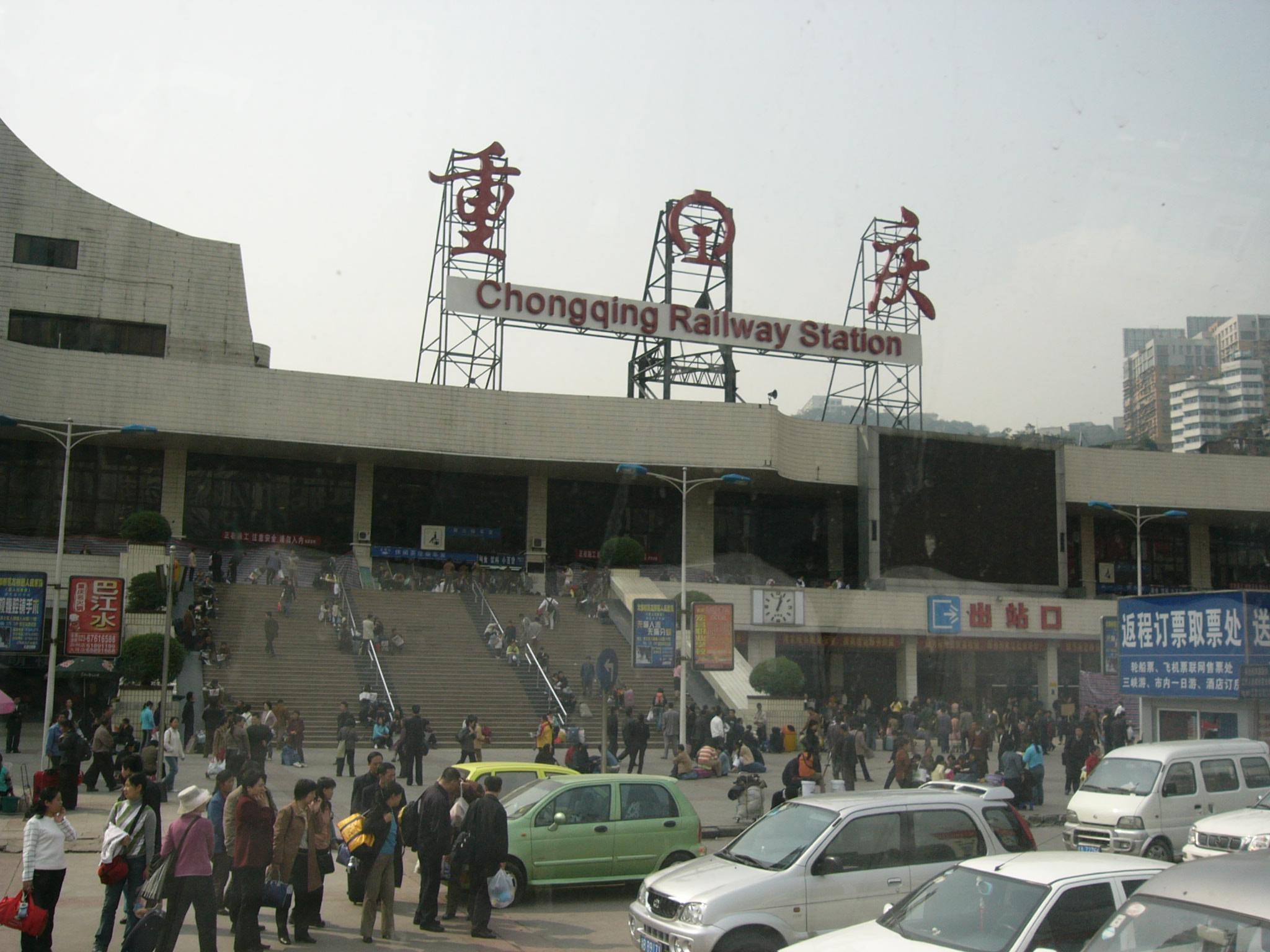 Chongqing Railway Station